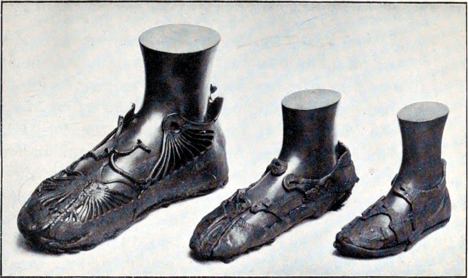 shoes from Bar Hill on the Antonine Wall